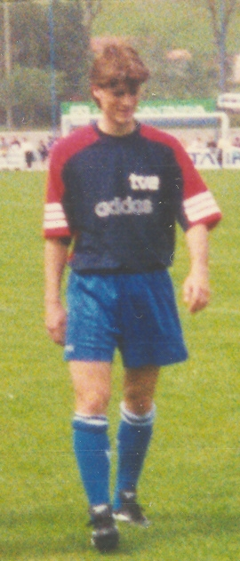 Ex-footballer Julen Guerrero during a training session.